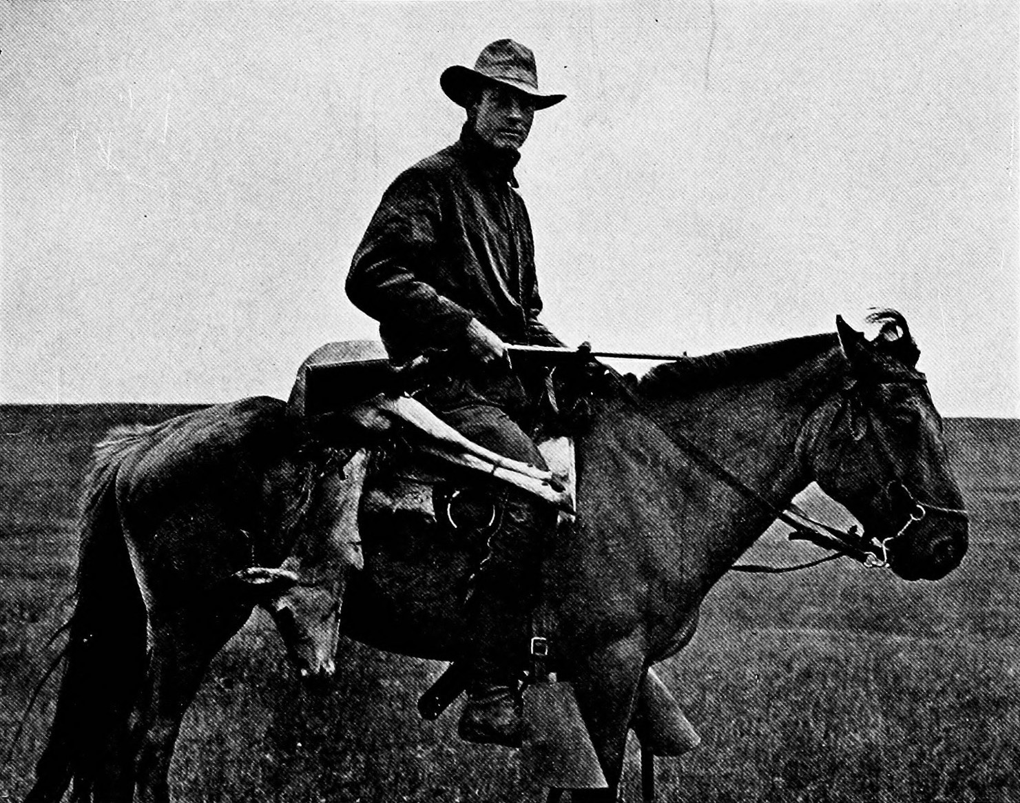 Photo from Across Mongolian Plains A Naturalist's Account of China's "Great Northwest"